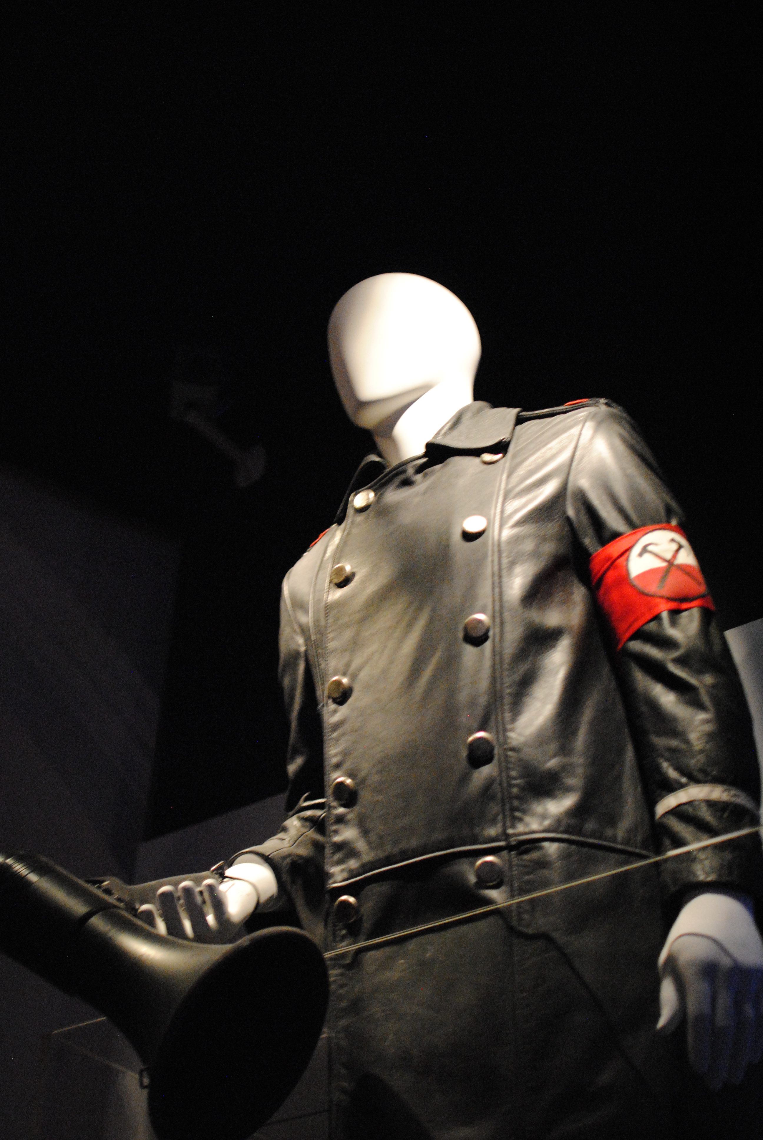 Mannequin dressed in one of Roger Waters' costumes from the original The Wall concerts; displayed at the Pink Floyd: Their Mortal Remains exhibition at the Victoria and Albert Museum.